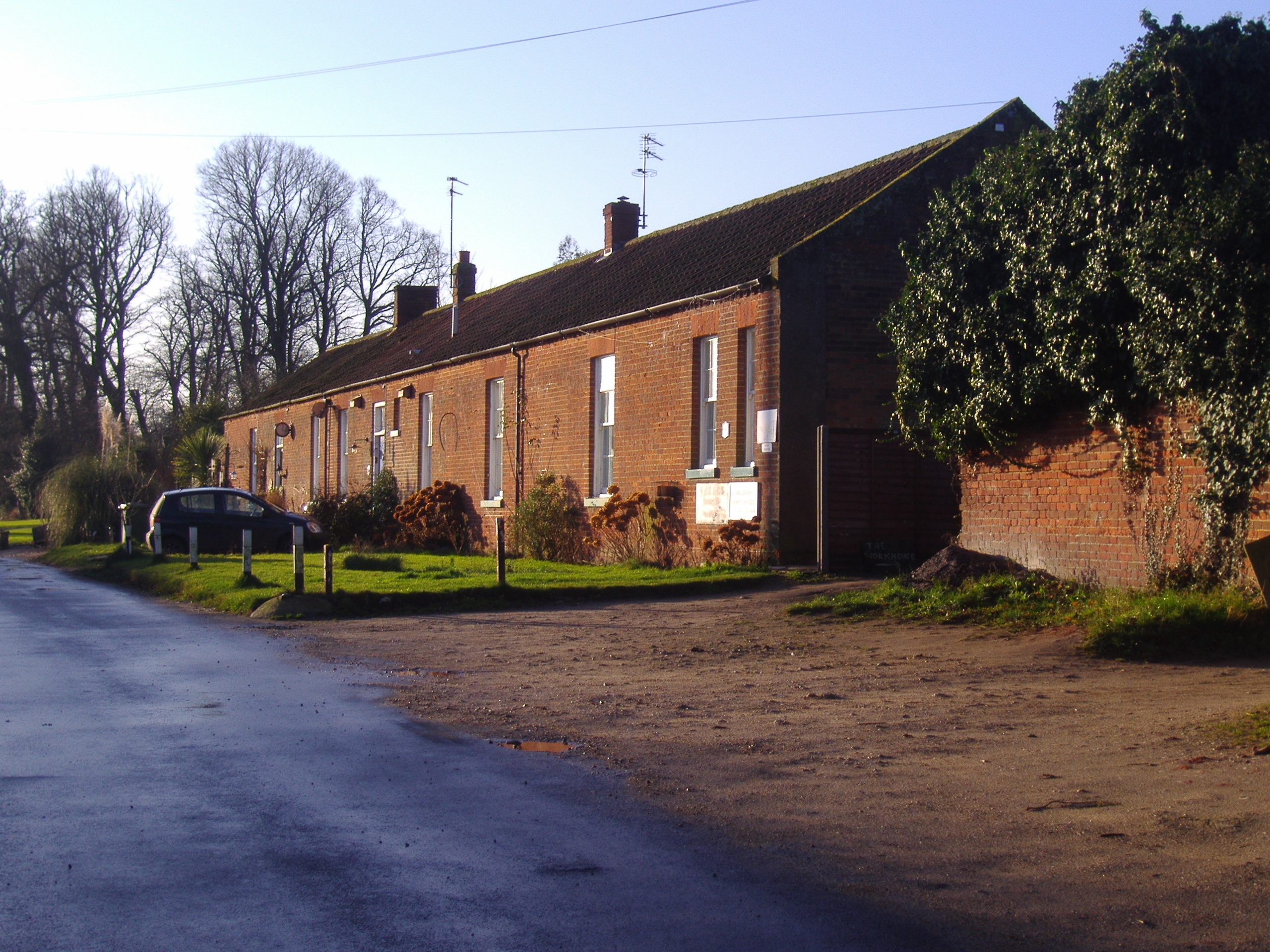 A Digital Photograph of the Old Workhouse at Smallburgh, Norfolk Taken on the 12th January 2008 by Haydnaston (talk) 14:24, 12 January 2008 (UTC)